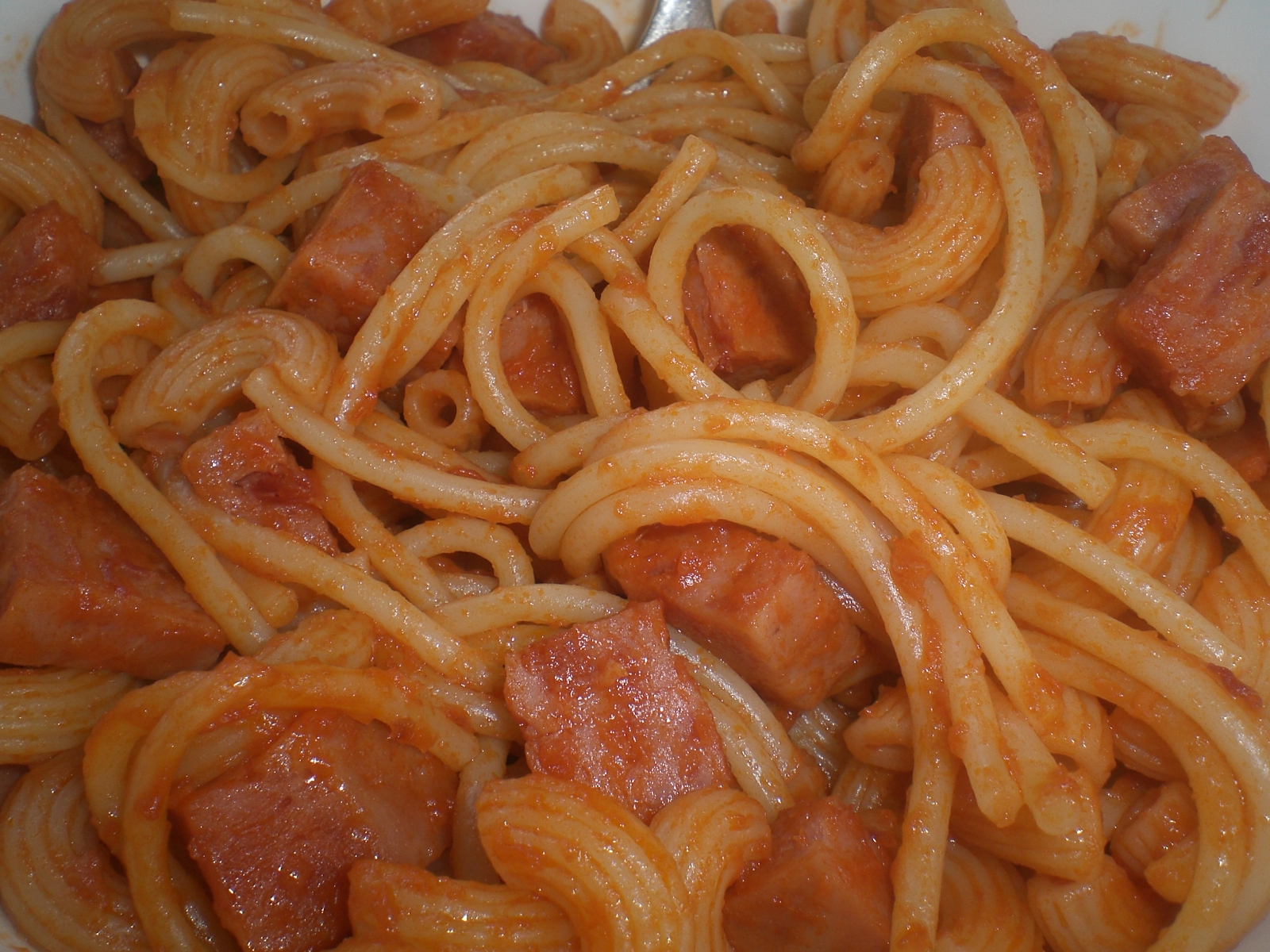 午餐肉zh:意大利粉